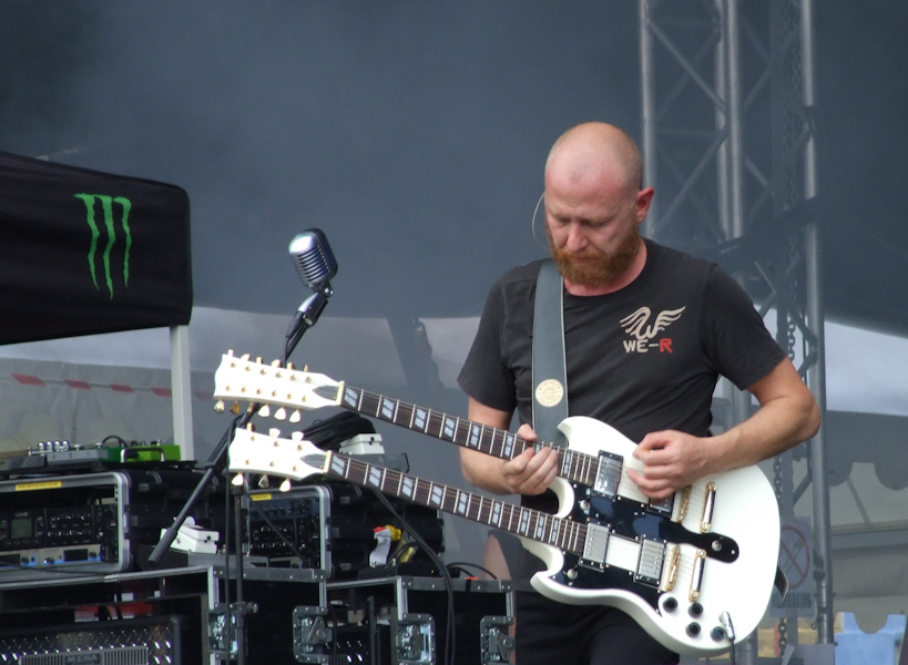 Dimitar Karnev, guitarist of the Bulgarian rock band D2, performing at Sofia Rocks Fest 2012.